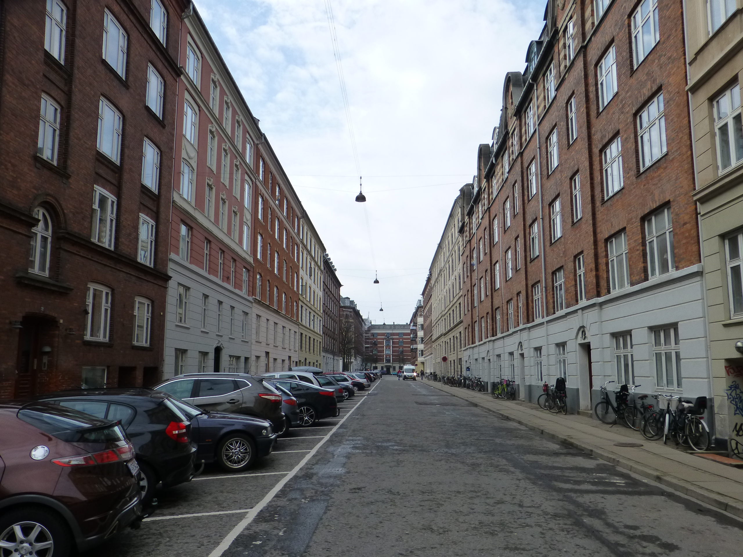 The street Marstalsgade in Østerbro in Copenhagen.